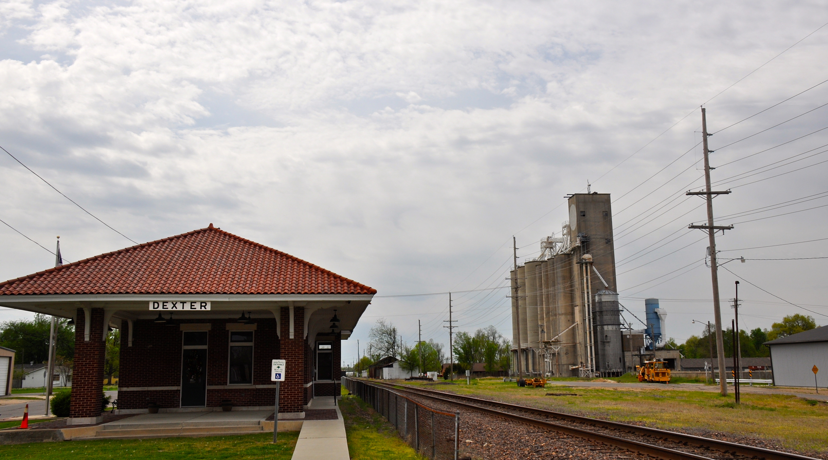 The old Dexter rail depot, now visitor center. Located at Dexter, Stoddard County, Missouri.